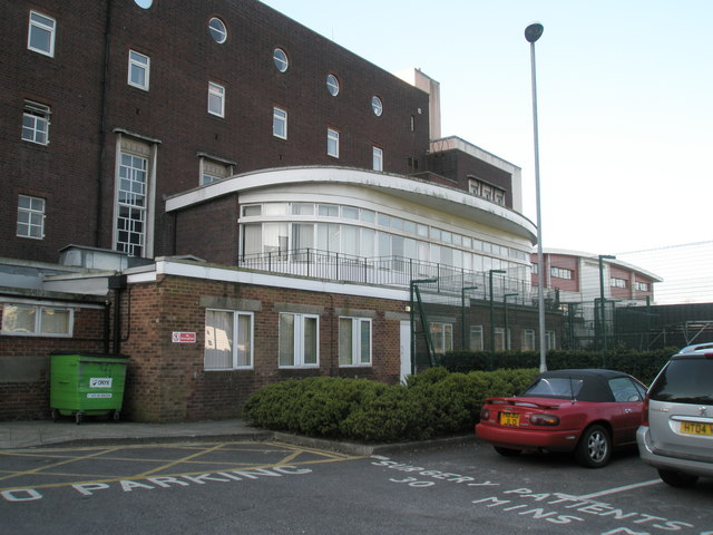 Memories of a plan that did not bear fruit This may look like an ordinary building but just the other side of the fence was THE best place to watch Hampshire play cricket on a hot summer's day. For a big game I always got there early and bagged my spot. One baking August day the lady next to me was sick just before play started making it unoccupiable, and I spent the rest of the day looking (vainly) for another comfortable, shady spot.